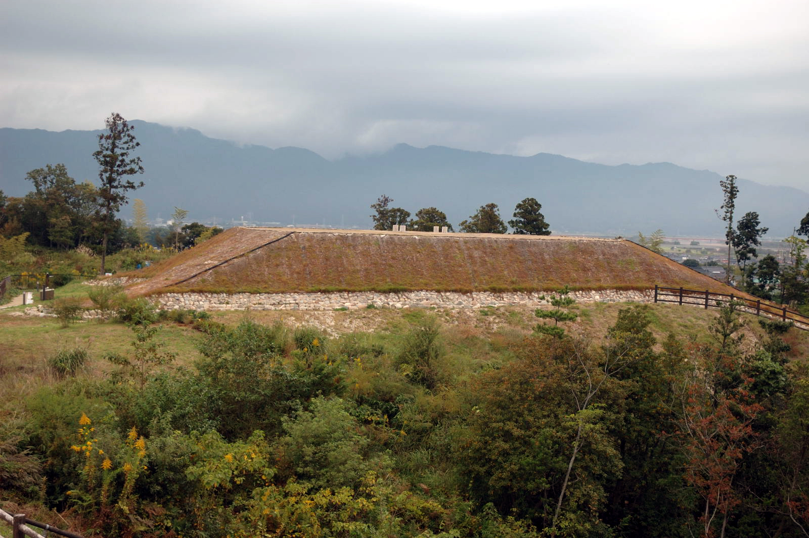 the 3rd grave